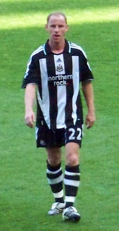 English football (soccer) player Nicky Butt